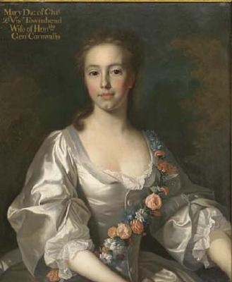 Hon. Mary Townshend, the daughter of Charles Townshend, 2nd Viscount Townshend of Raynham and Dorothy Walpole. She married Lt.-Gen. Hon. Edward Cornwallis, son of Charles Cornwallis, 4th Baron Cornwallis of Eye and Lady Charlotte Butler, in 1763.